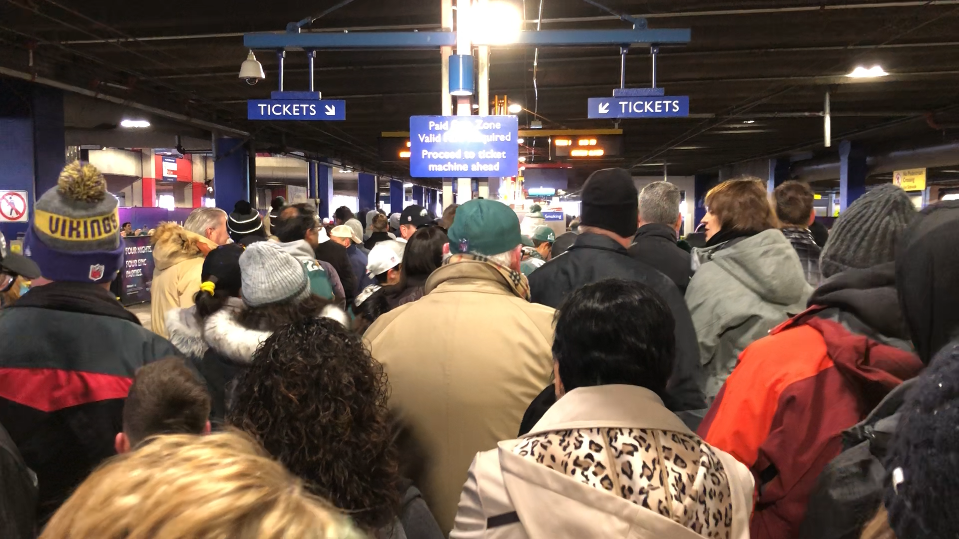 Fans pass through security prescreening at the Mall of America before boarding the Metro Blue Line to US Bank Stadium at 12:30pm on the day of Super Bowl LII.